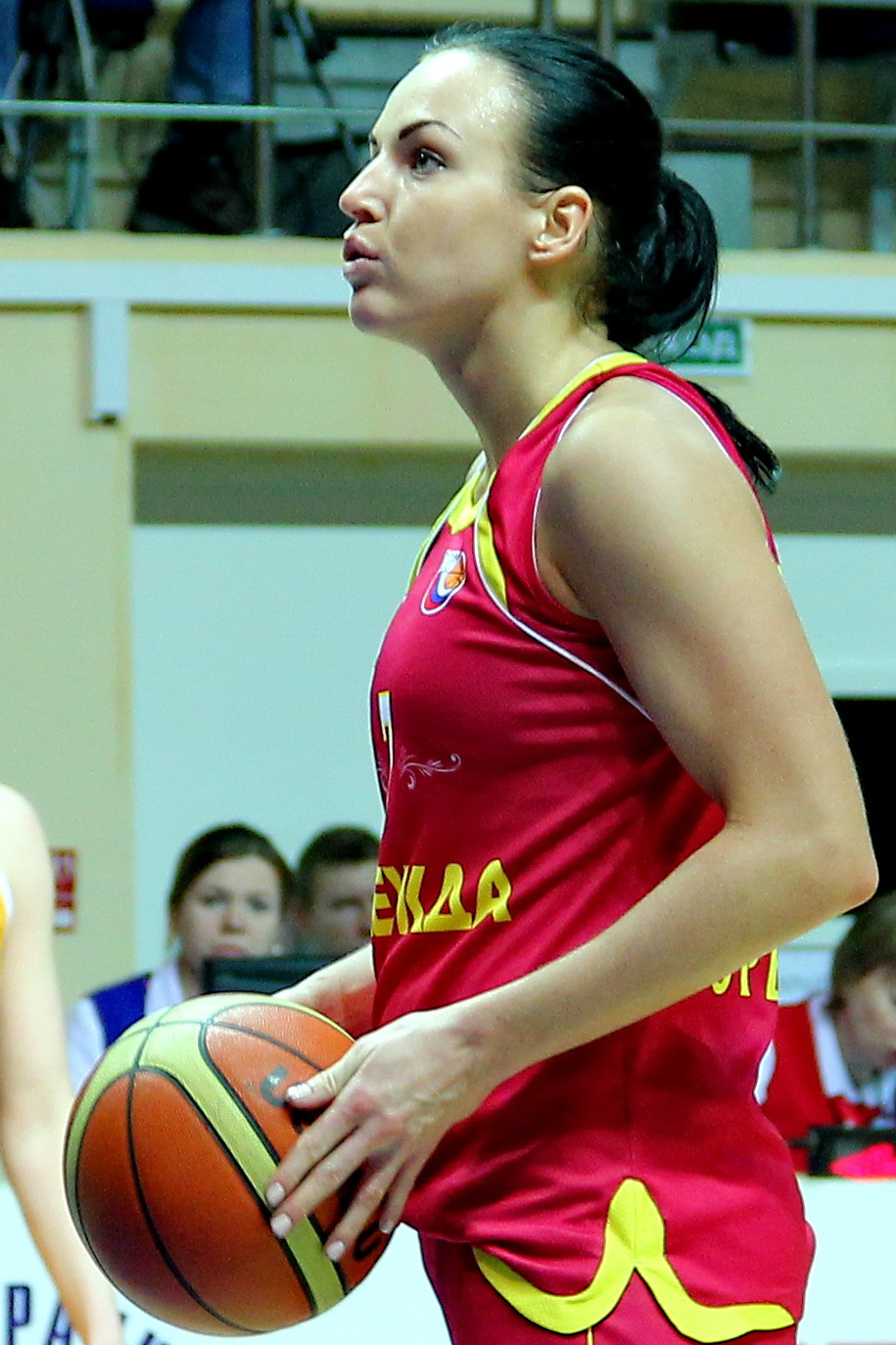 Russia, Vologda, Natalya Zhedik in game «Vologda-Chevakata» vs «Nadezhda» (Orenburg)